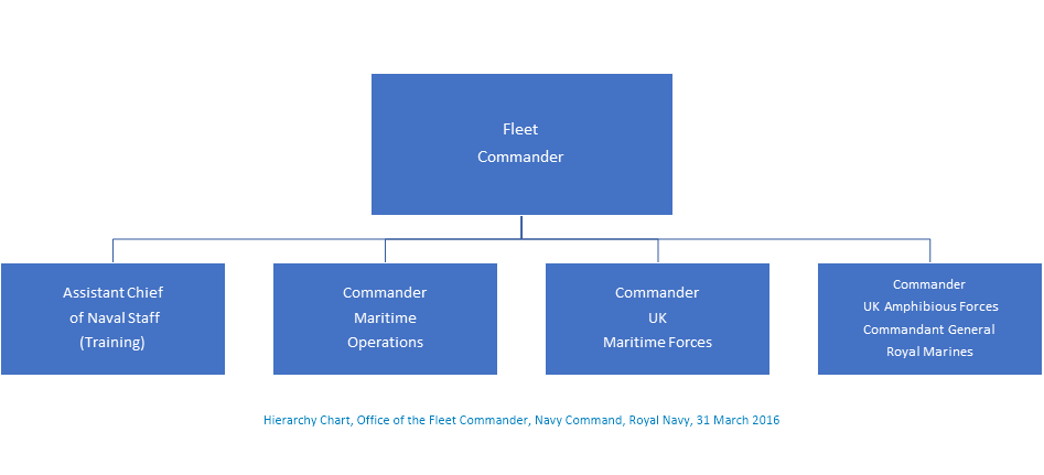 Own work using MS Word, Smart Chart converted using MS Paint based on